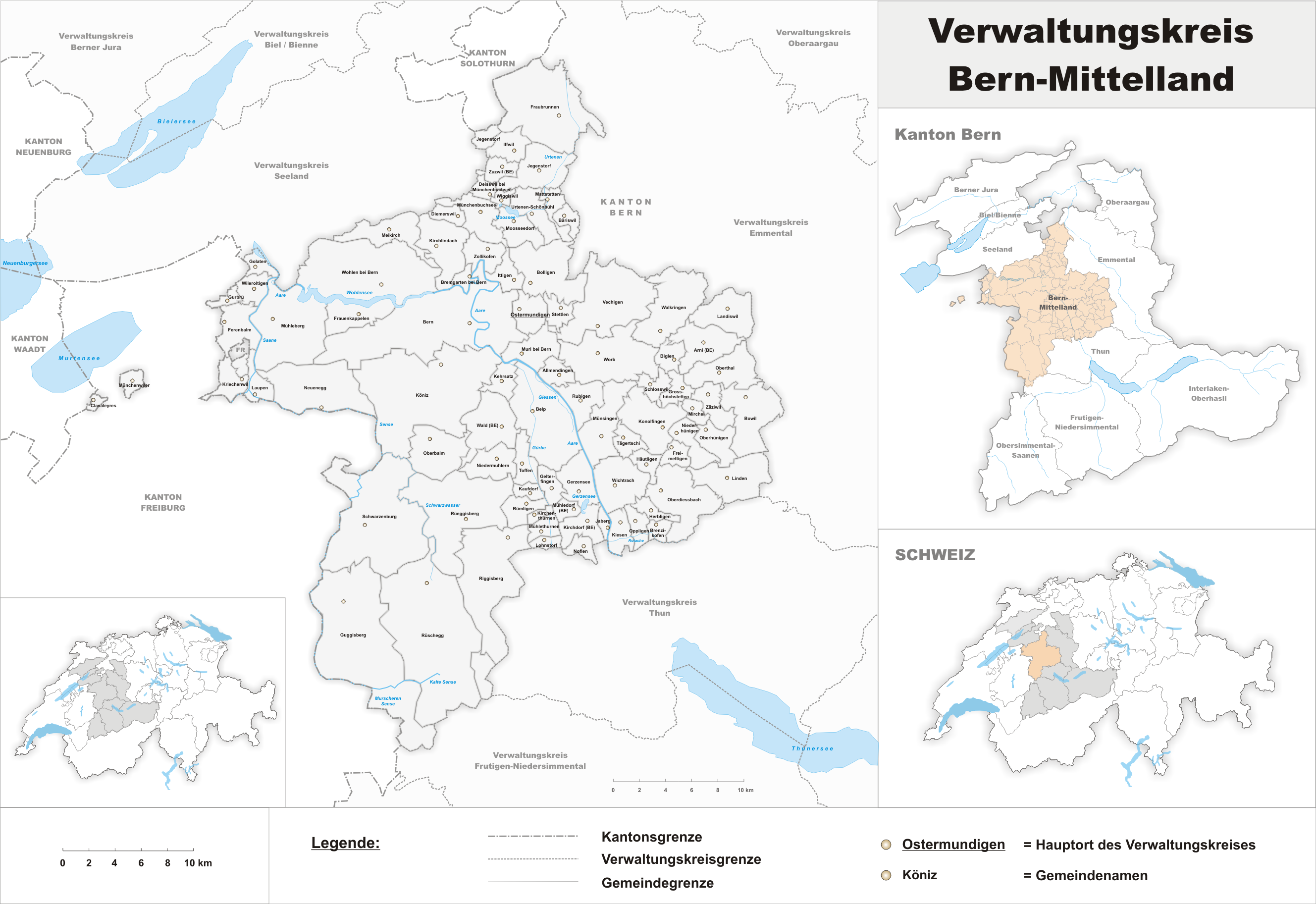 Municipalities in the district of Bern-Mittelland